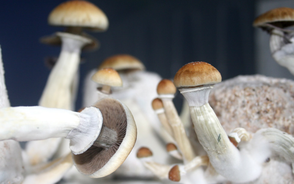 Cogumelos cultivados com a técnica Psilocybe Fanaticus, mushrooms growed using the PF Tek.